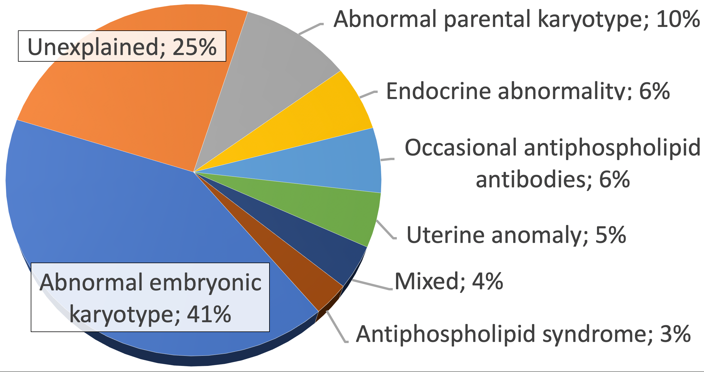 Pie chart of relative incidences of causative findings in cases with recurrent miscarriage. Reference: (2012). "Abnormal embryonic karyotype is the most frequent cause of recurrent miscarriage". Human Reproduction 27 (8): 2297–2303. ISSN 0268-1161.